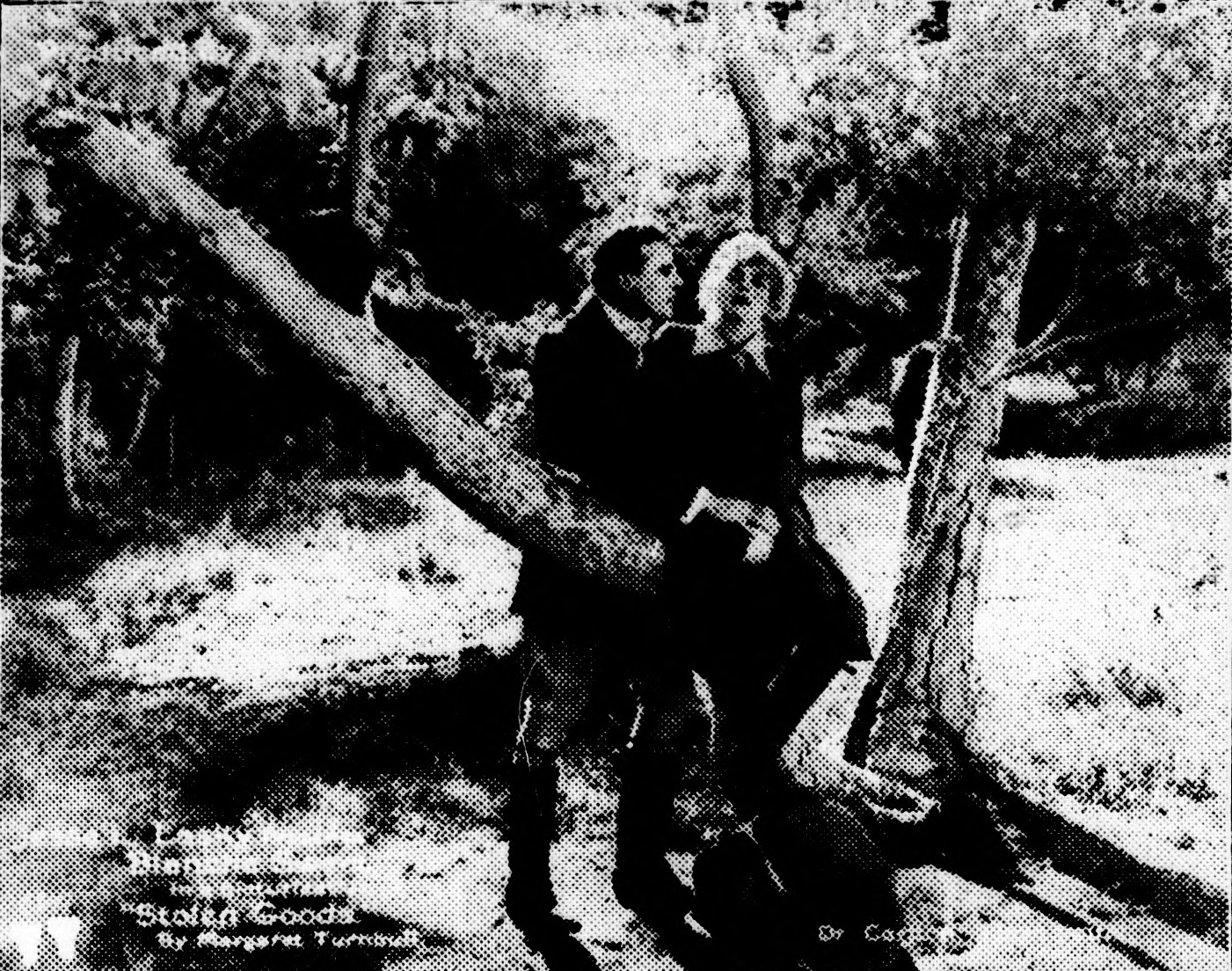 Stolen Goods is a 1915 American drama silent film directed by George Melford and written by Margaret Turnbull. This is a newspaper publicity printing of a scene from the film.